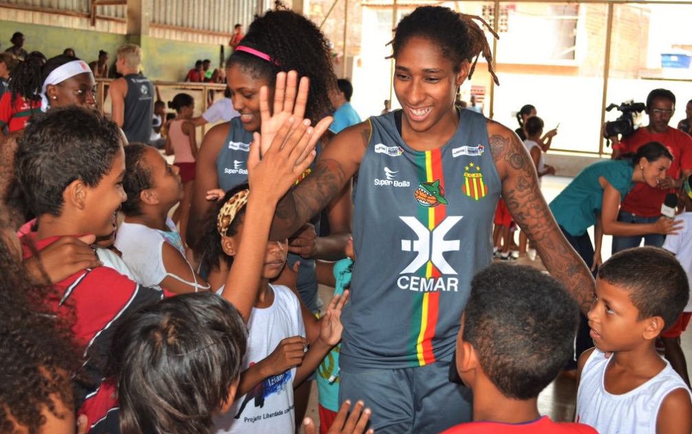 Crystal Bradford overseas with fans in Brazil